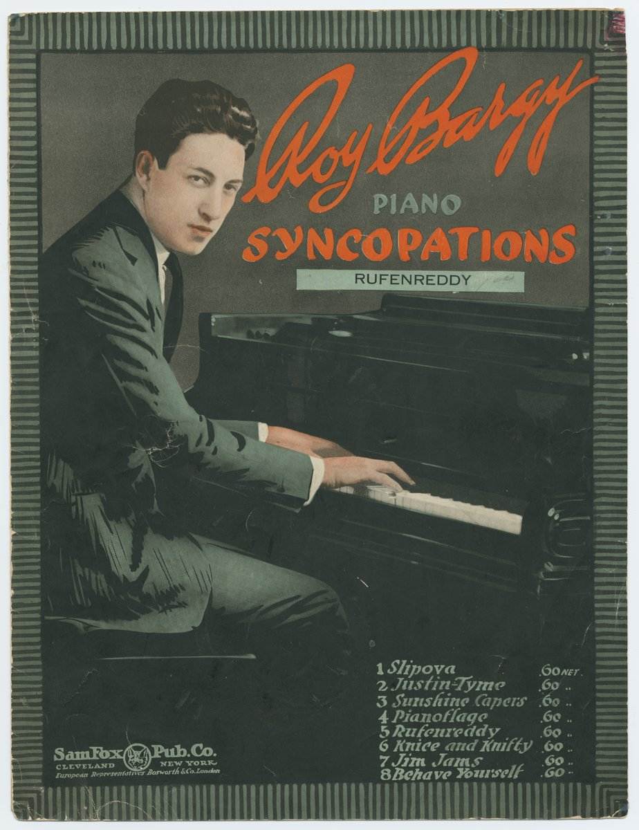 Pianist & composer Roy Bargy on cover of sheet music for his tune "Rufenreddy".